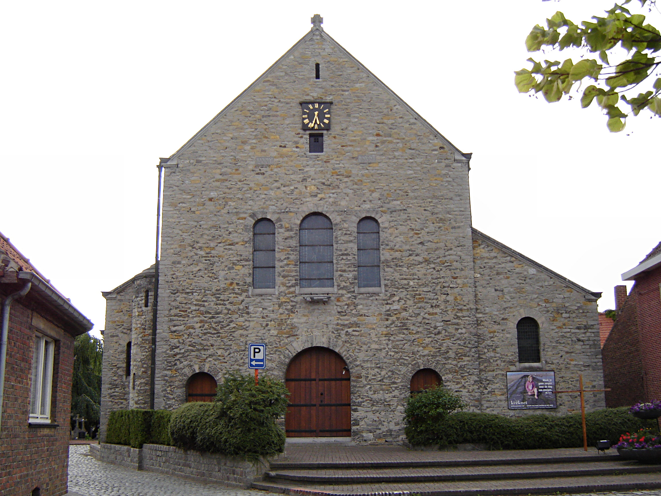 Church of Saint Vedast in Nederename. Nederename, Oudenaarde, East Flanders, Belgium